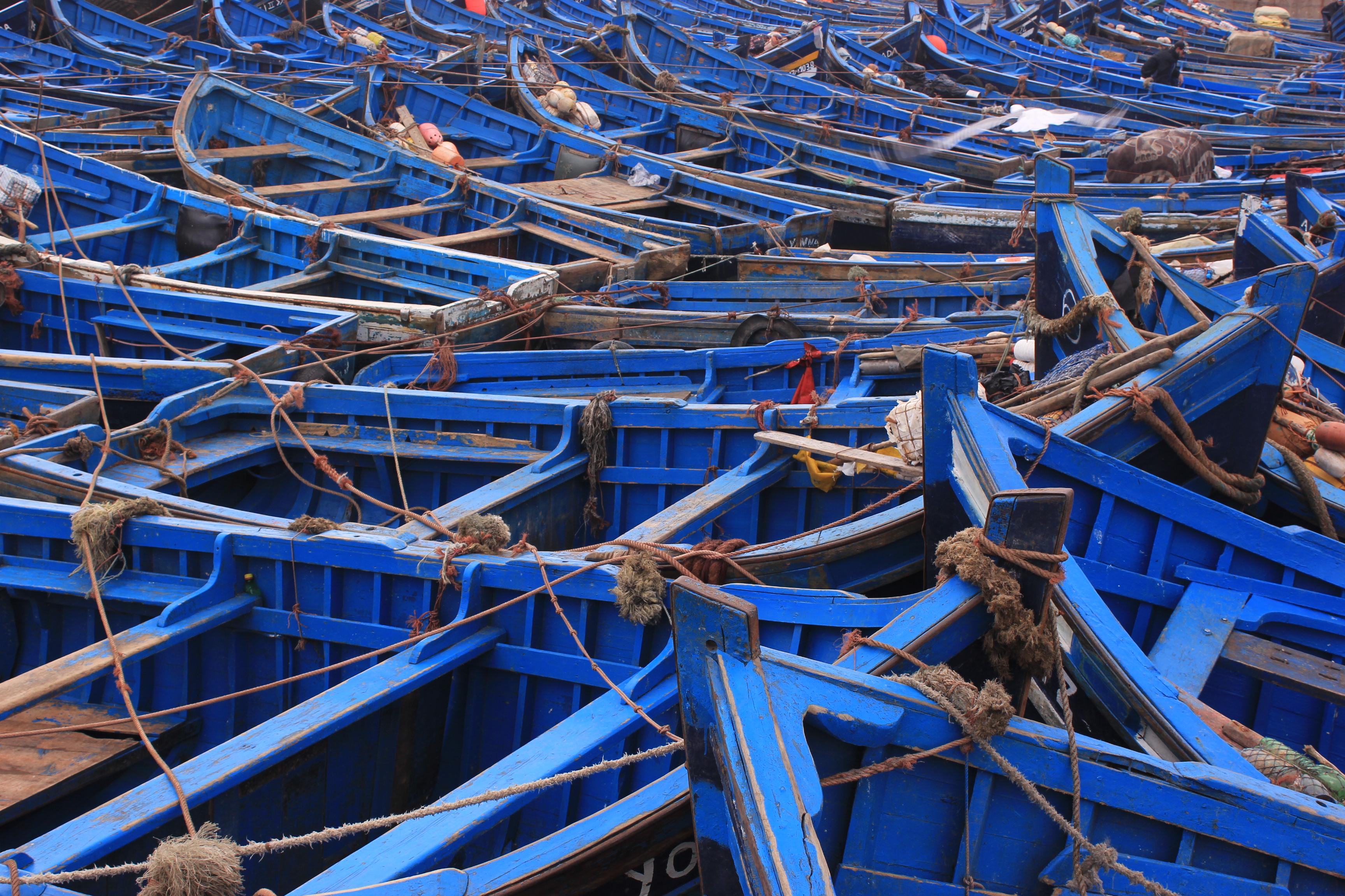 This is an image with the theme "Africa on the Move or Transport" from: Morocco